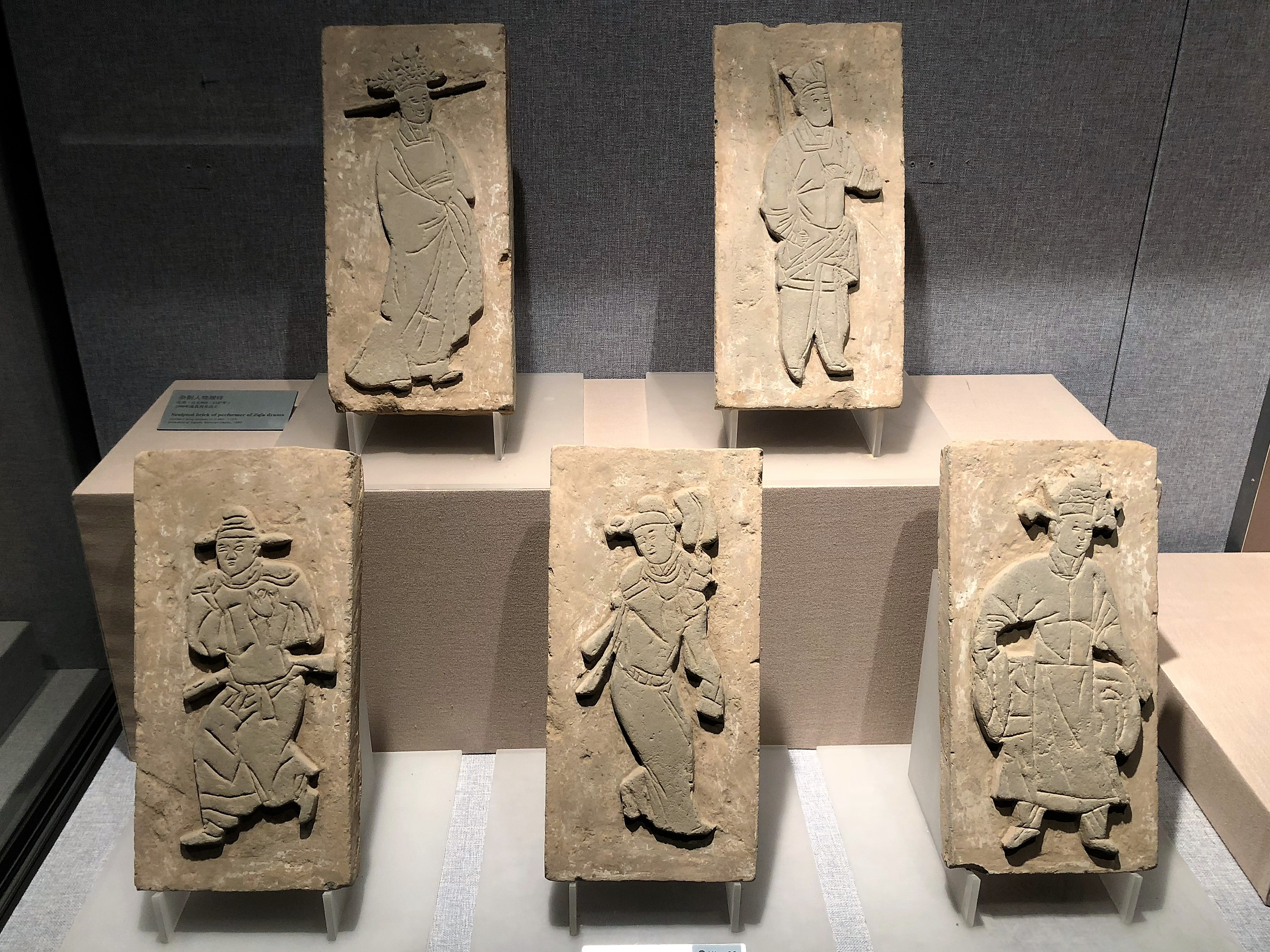 Sculpted bricks of performer of Zaju drama. Northern Song Dynasty. Excavated at Xiguan, Wenxian County, 1990.